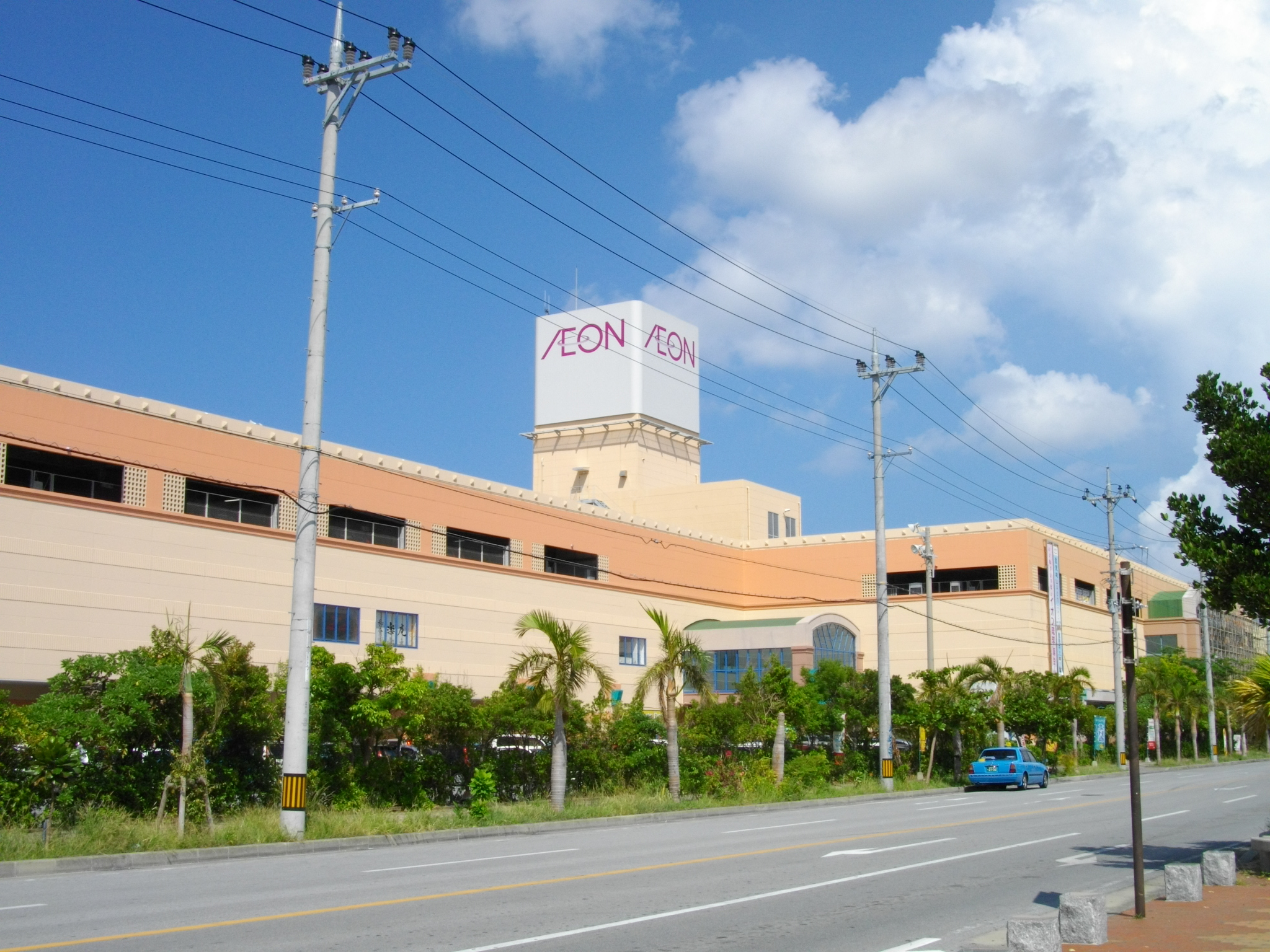 AEON Chatan Shopping Center